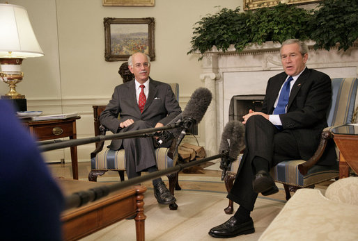 Bush Discusses Sudan with Special Envoy and Makes Remarks on North Korea: President George W. Bush and Andrew Natsios, Presidential Special Envoy for Sudan, meet with the press in the Oval Office Tuesday, Oct. 31, 2006. "The situation in Darfur is on our minds," said the President. "The people who have suffered there need to know that the United States will work with others to help solve the problem." White House photo by Kimberlee Hewitt